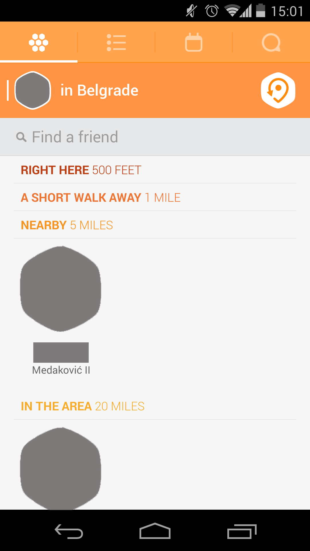 Swarm home screen